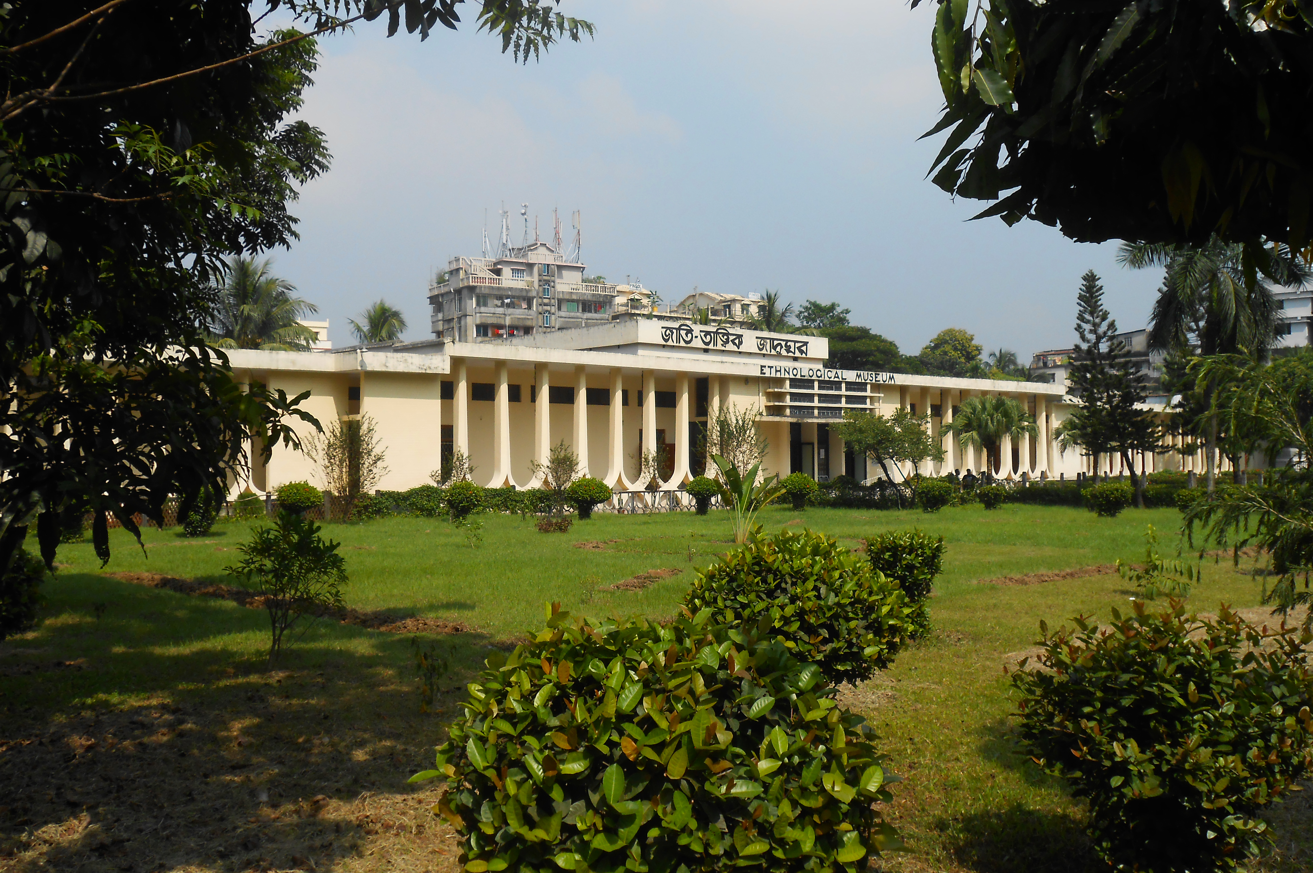 Ethnological Museum